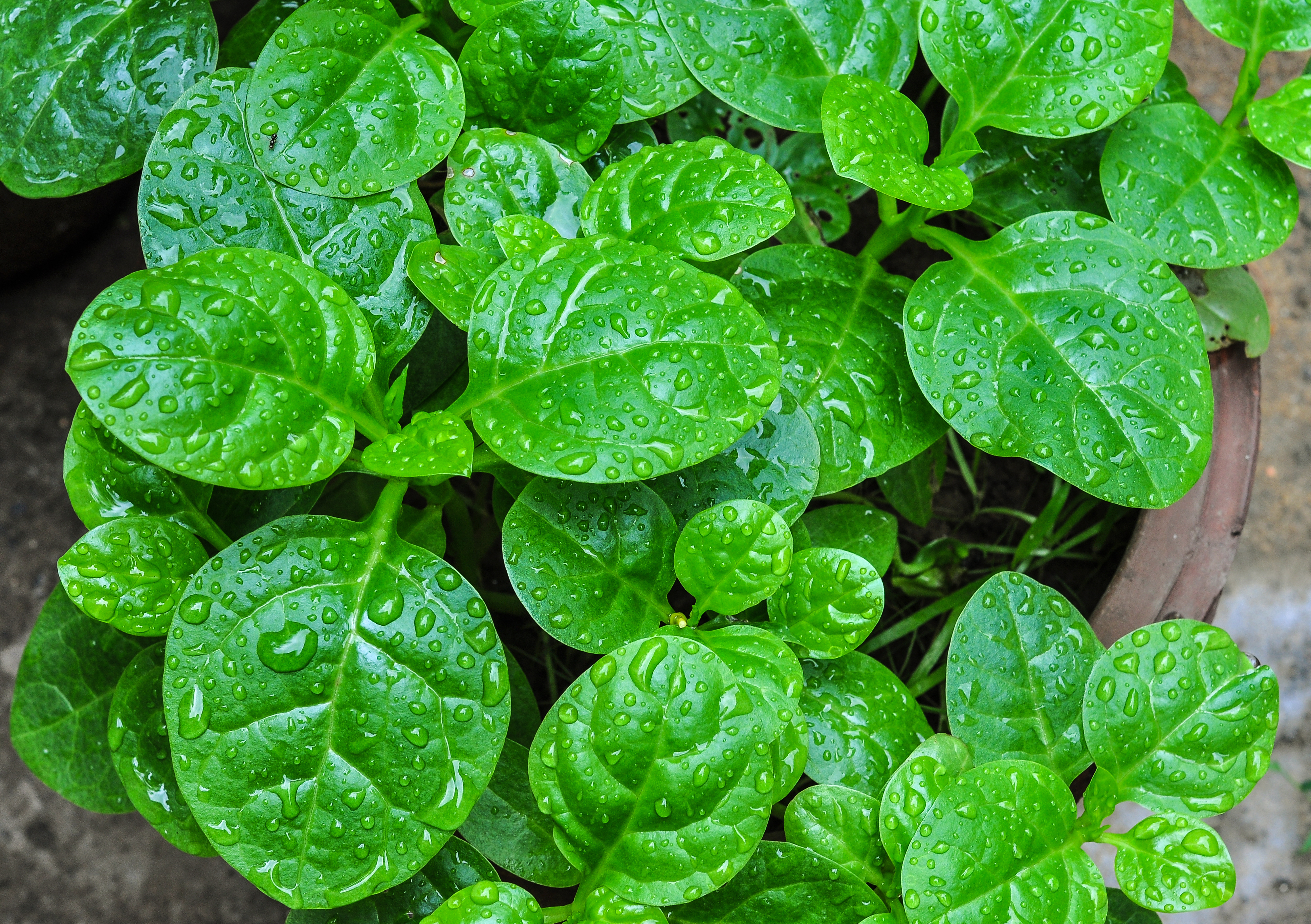 Basella alba (Malabar Spinach) leaves. Photographed at Burdwan, West Bengal, India.